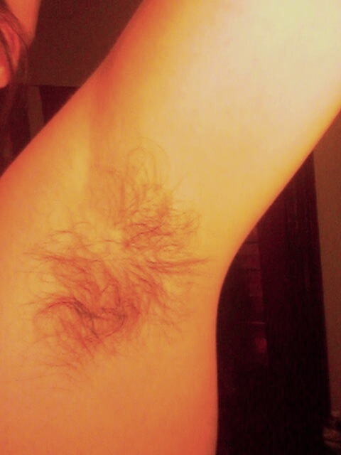 A photo of my armpit; intended for use at Underarm and/or Underarm hair.